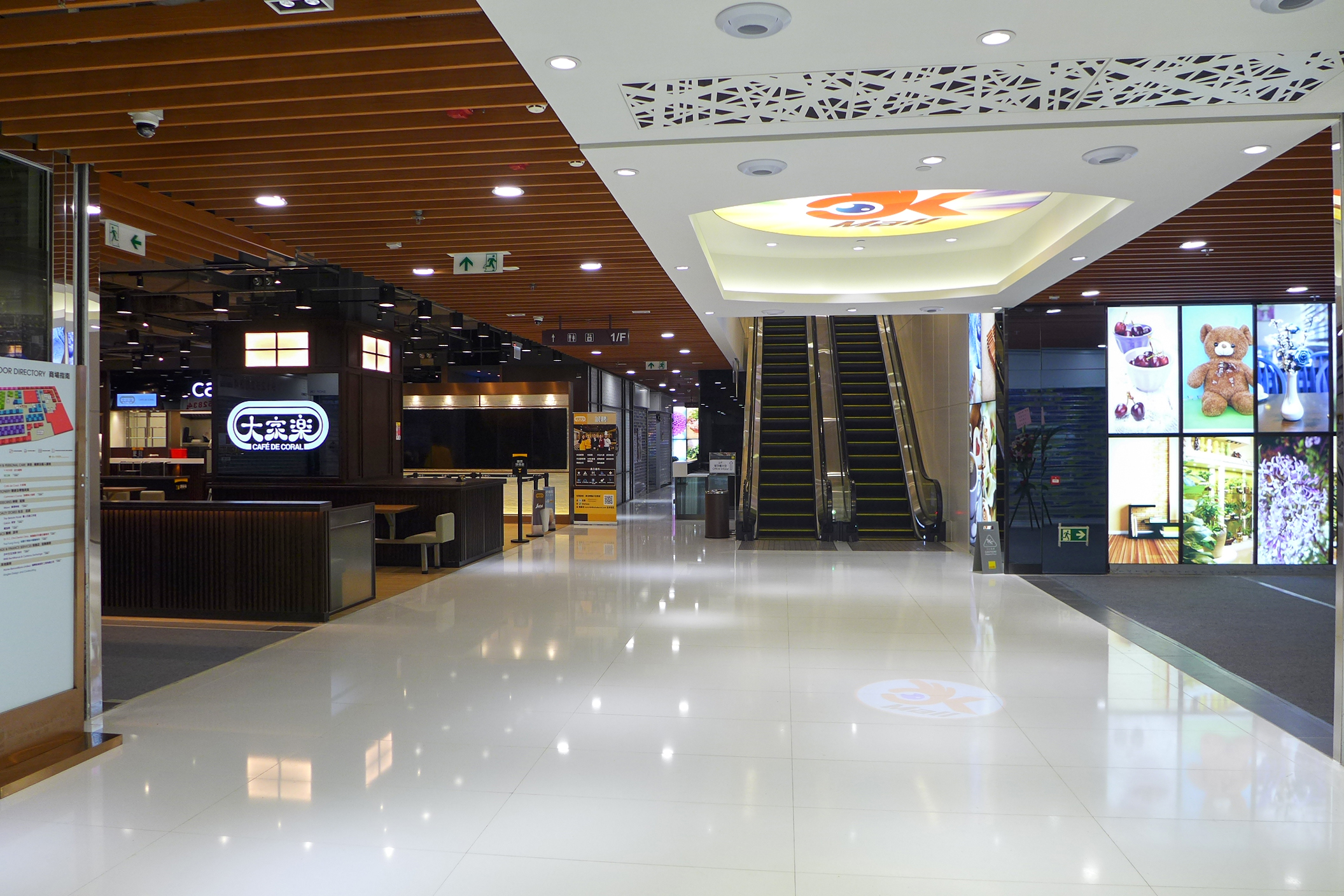 Kings Wing Plaza2 Level 1 OK Mall